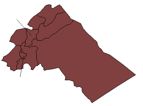 Blank map of Rif Dimashq's districts, as they were up to 2009, when a tenth district, Qudsaya District, was created out of parts of Markaz Rif Dimashq and Zabadani districts.